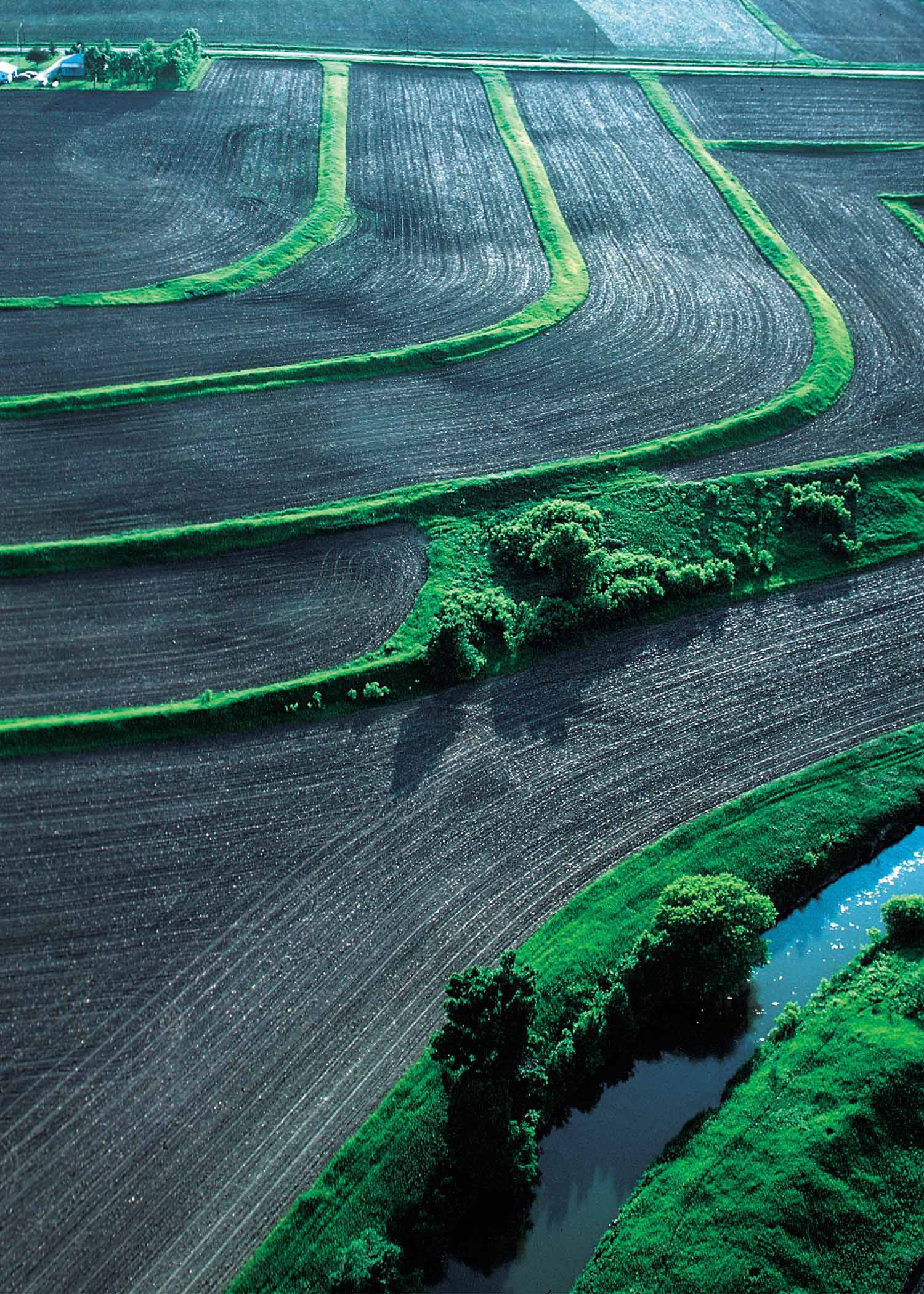 Terraces, conservation tillage and conservation buffers save soil and improve water quality on this farm in Woodbury County in northwest Iowa. 1999. Photo by Lynn Betts, USDA Natural Resources Conservation Service.